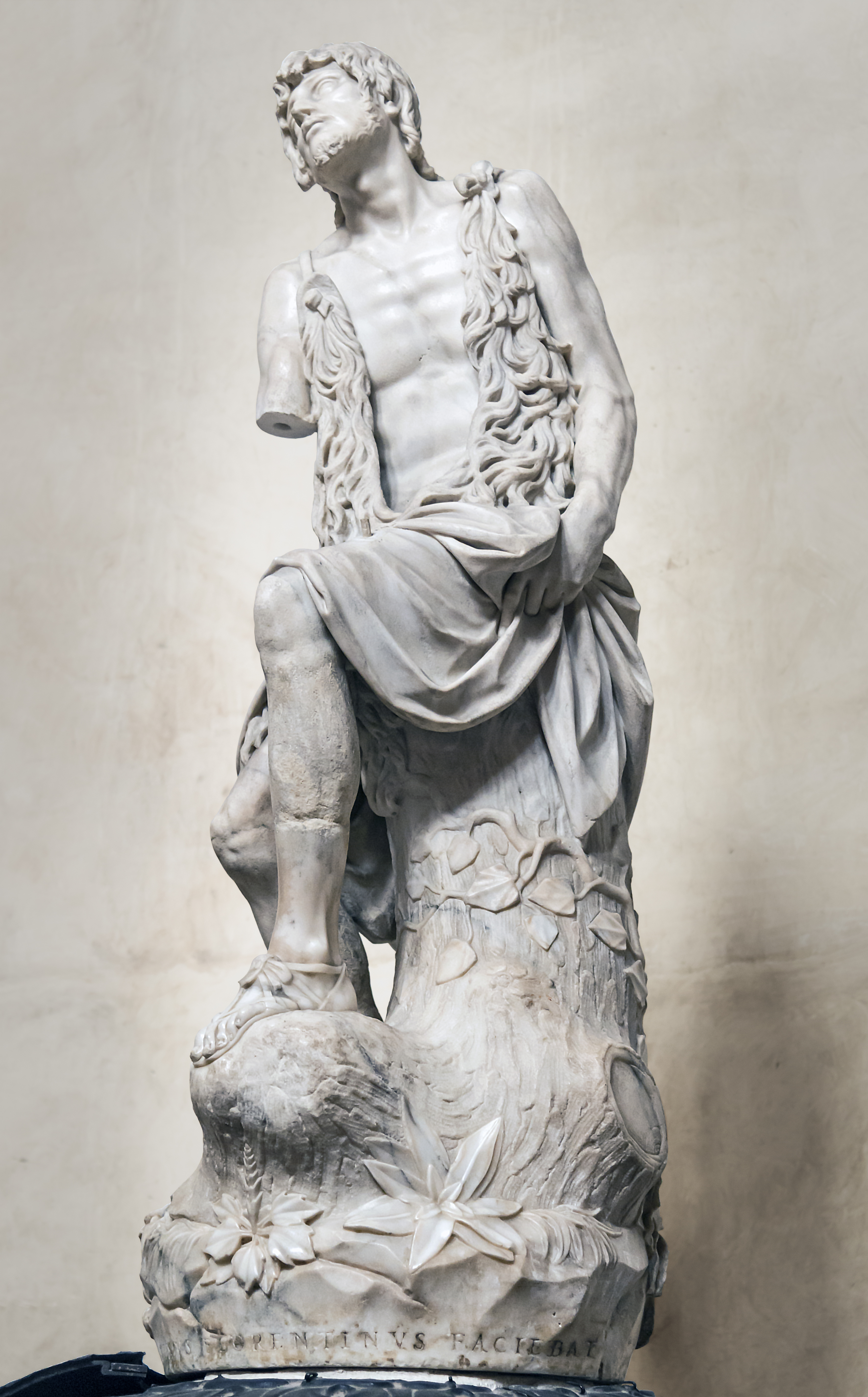 Santa Maria Gloriosa dei Frari. The Corner chapel. The baptismal font: it is originally a holy water offered by Daniele Giustiniani in 1721, change in font by adding a marble statue dating from 1540 Jacopo Sansovino representing St. John the Baptist. On the pedestal is engraved: "Iacobus Sansovinus Florentinus faciebat" (Jacopo Sansonivno Florentin did).